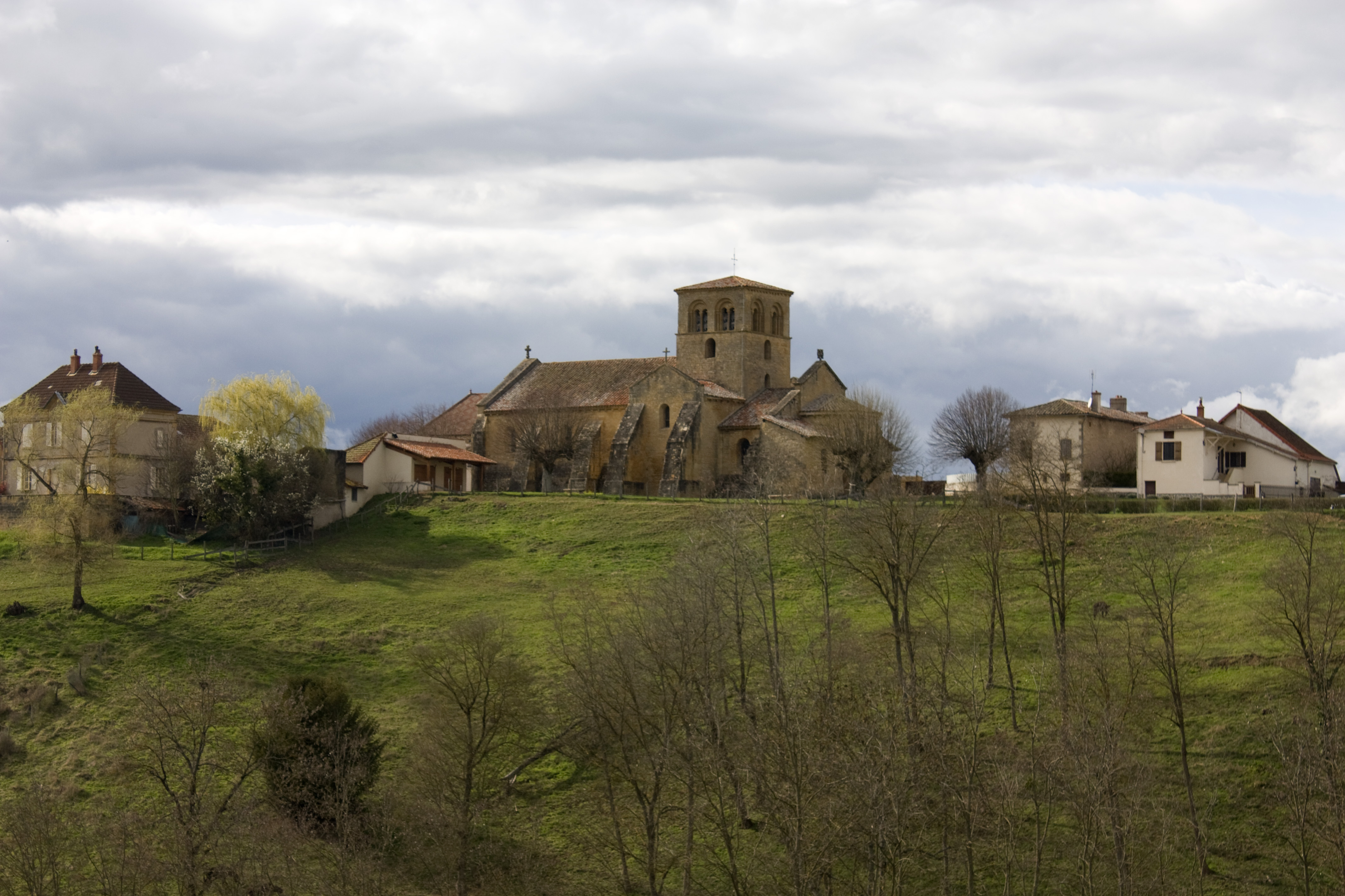 Site of the church of Saint Marcel.